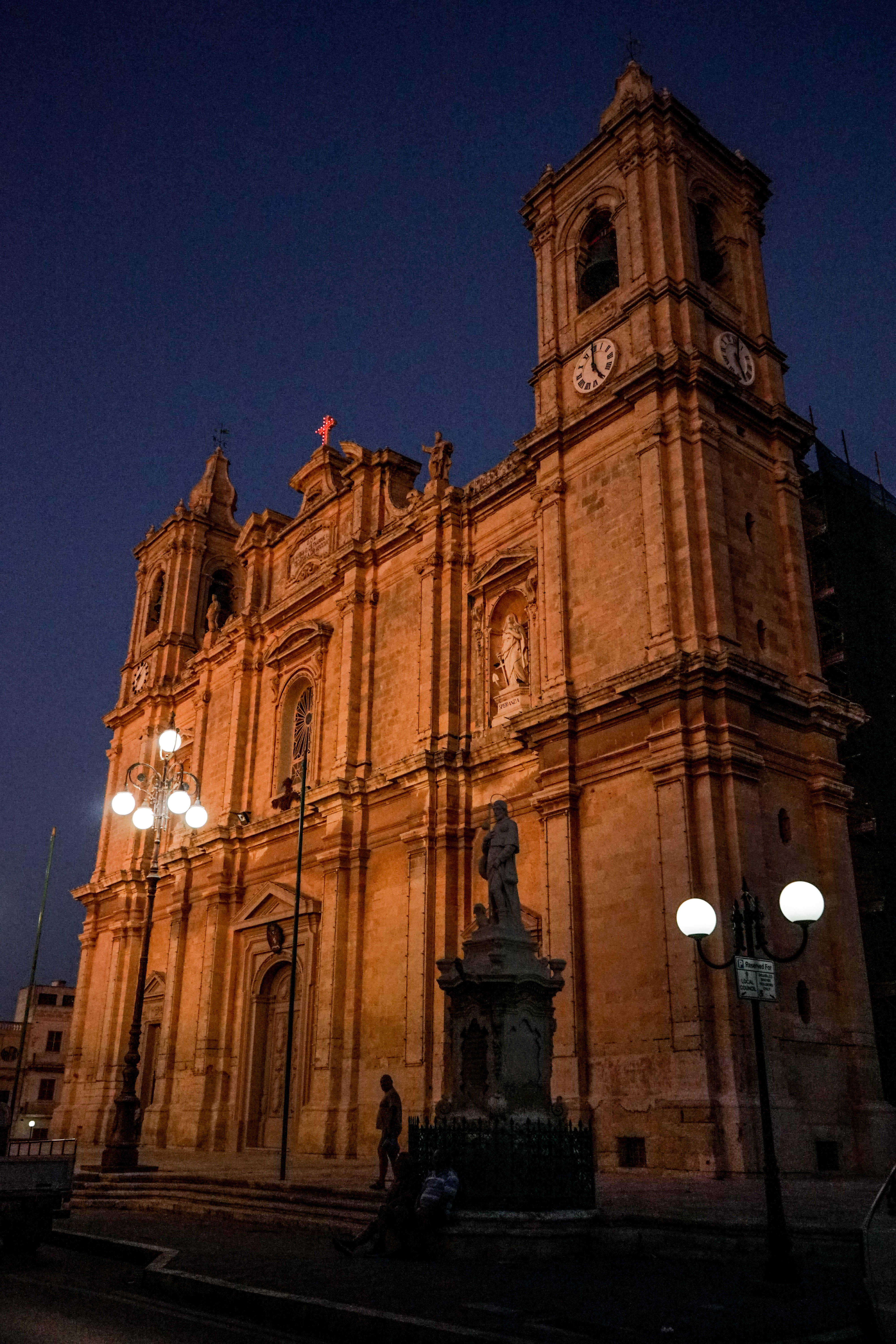 Parish Church of St. Catherine This media is about Maltese cultural property with inventory number 01921.